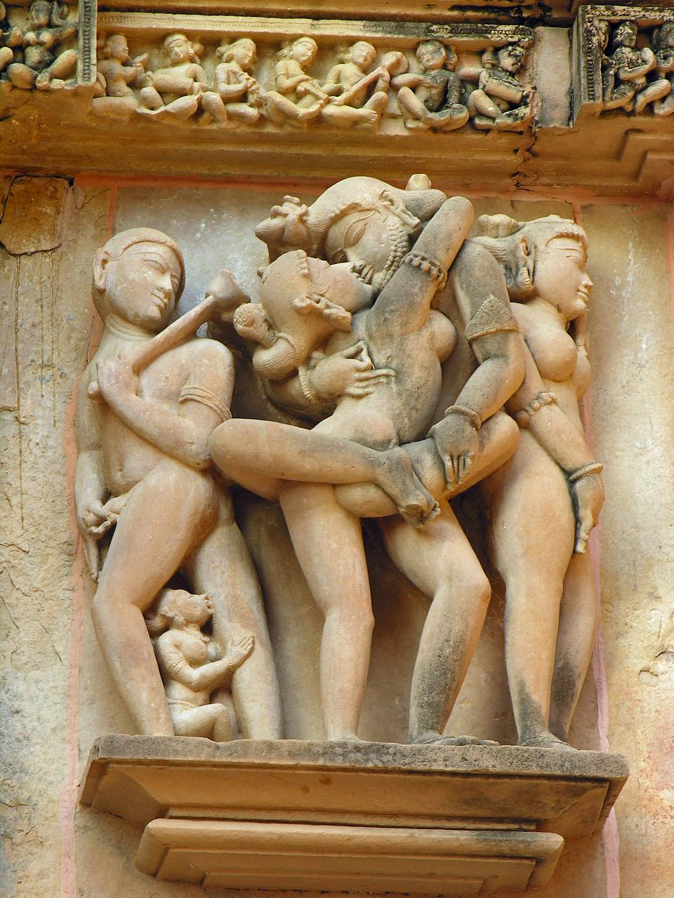 Men and women embracing each other. Khajuraho, India